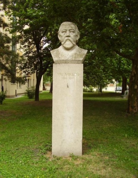 Miklós Ybl Statue (Szkesfehérvár, Hungary)